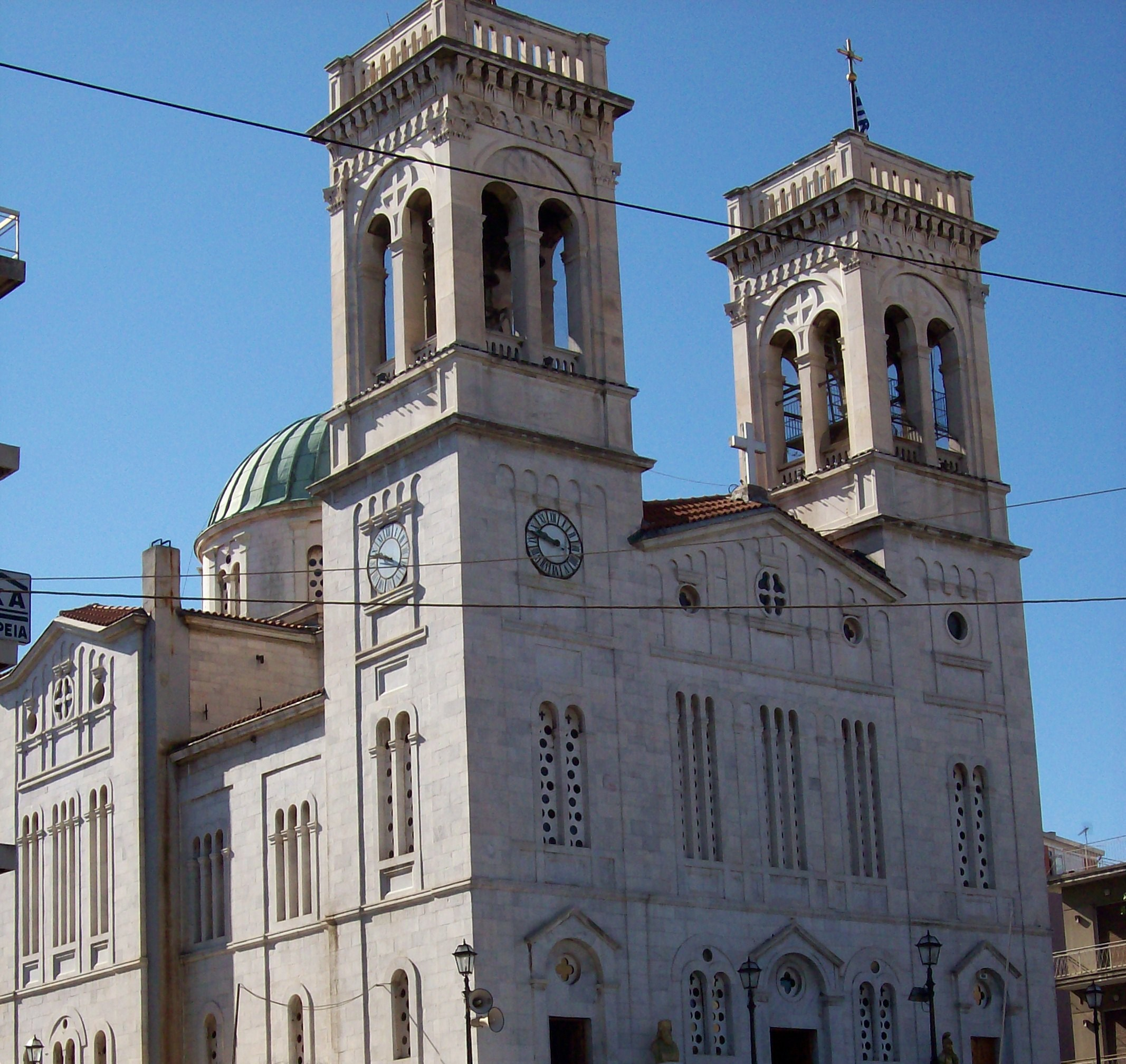 Church in Tripoli, Greece